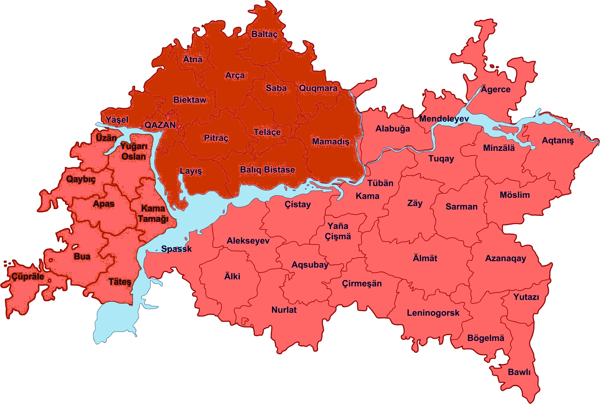 Arça yağı